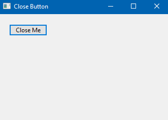 This file is a GUI representation made with wxPython wxWidgets. The GUI windows display show in Microsoft windows 10 Operating System. These files show close button. When clicking on close button the GUI windows close.